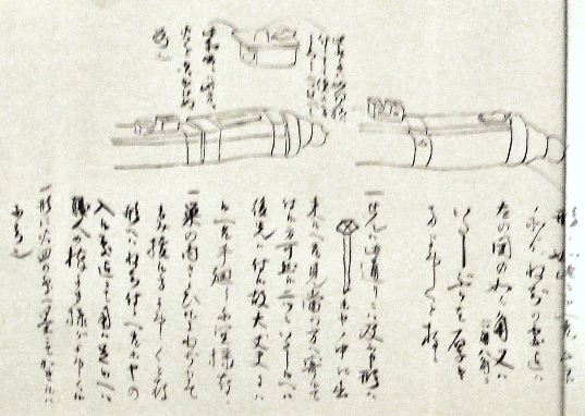 Description_of_swivel_breech_loading_gun_Japanese. Yasukuni Shrine